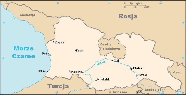 Map og Georgia with Abkhazia and South Ossetia